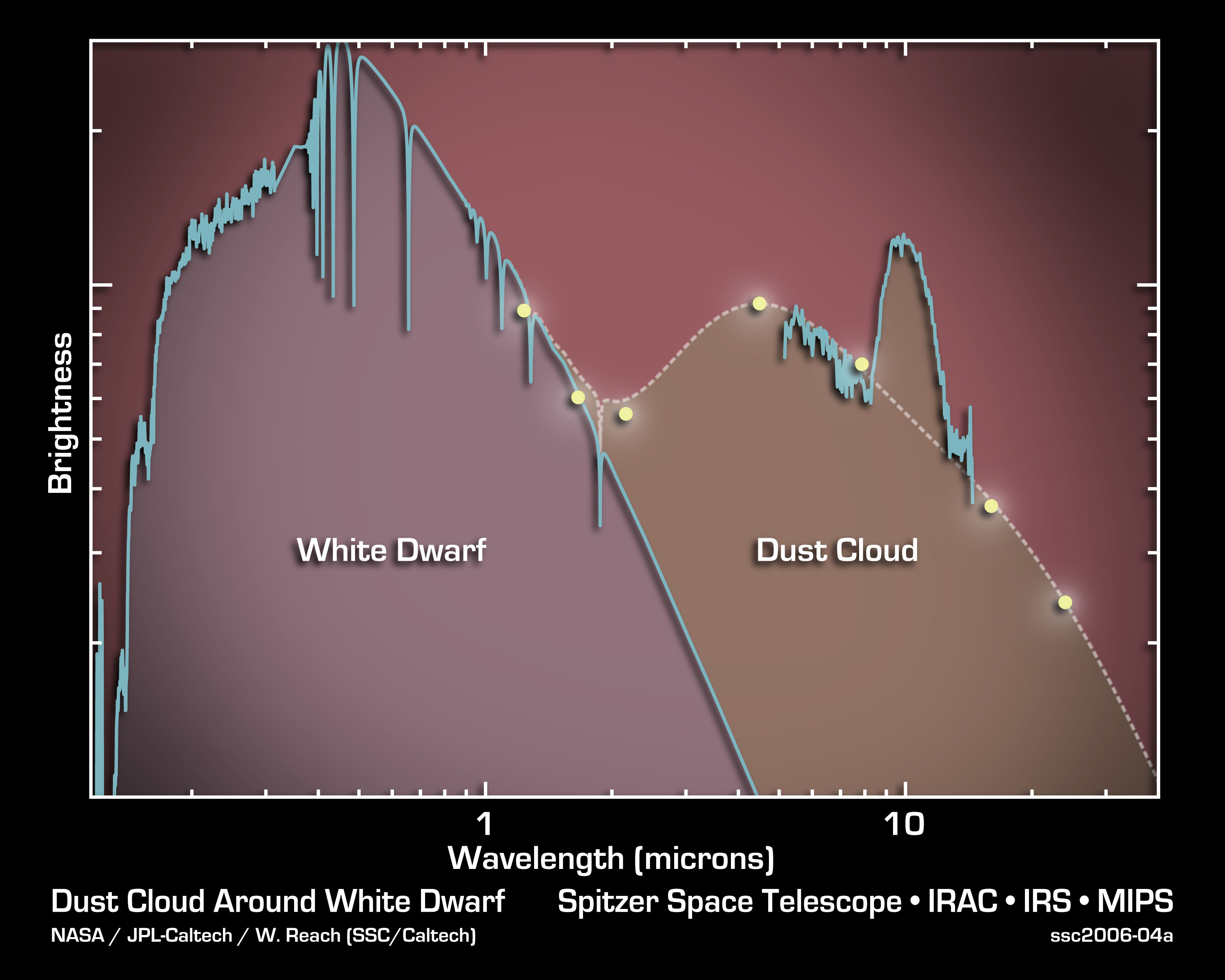 The graph of data, or spectrum, from NASA's Spitzer Space Telescope indicates that a dead star, or white dwarf, called G29-38, is shrouded by a cloud of dust. The data also demonstrate that this dust contains some of the same types of minerals found in comet Hale-Bopp. The findings tell a possible tale of solar system survival. Though the dust seen by Spitzer is likely from a comet that recently perished, its presence suggests that an icy distant ring of comets may still orbit the dead star. These data were collected by Spitzer's infrared spectrometer, an instrument that cracks light open like a geode, revealing its coveted components. In this spectrum, light from the white dwarf is on the left, at ultraviolet and visible wavelengths. The spectrum on the right, at infrared wavelengths longer than about 2 microns, shows much more light than can be explained by a white dwarf alone. The bump seen around a wavelength of 10 microns offers a clue to the source of this excess infrared light. It signifies the presence of silicate minerals, which are found in our own solar system on Earth, in sandy beaches, and in comets and asteroids. These silicate grains appear to be very small like those in comets, so astronomers favor the theory that a comet recently broke apart around the dead star.